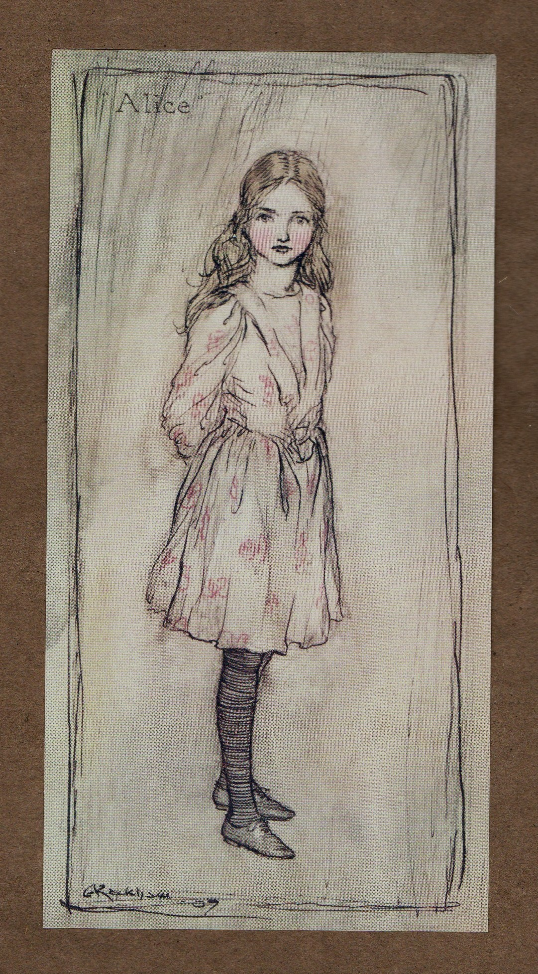 Alice by Arthur Rackham